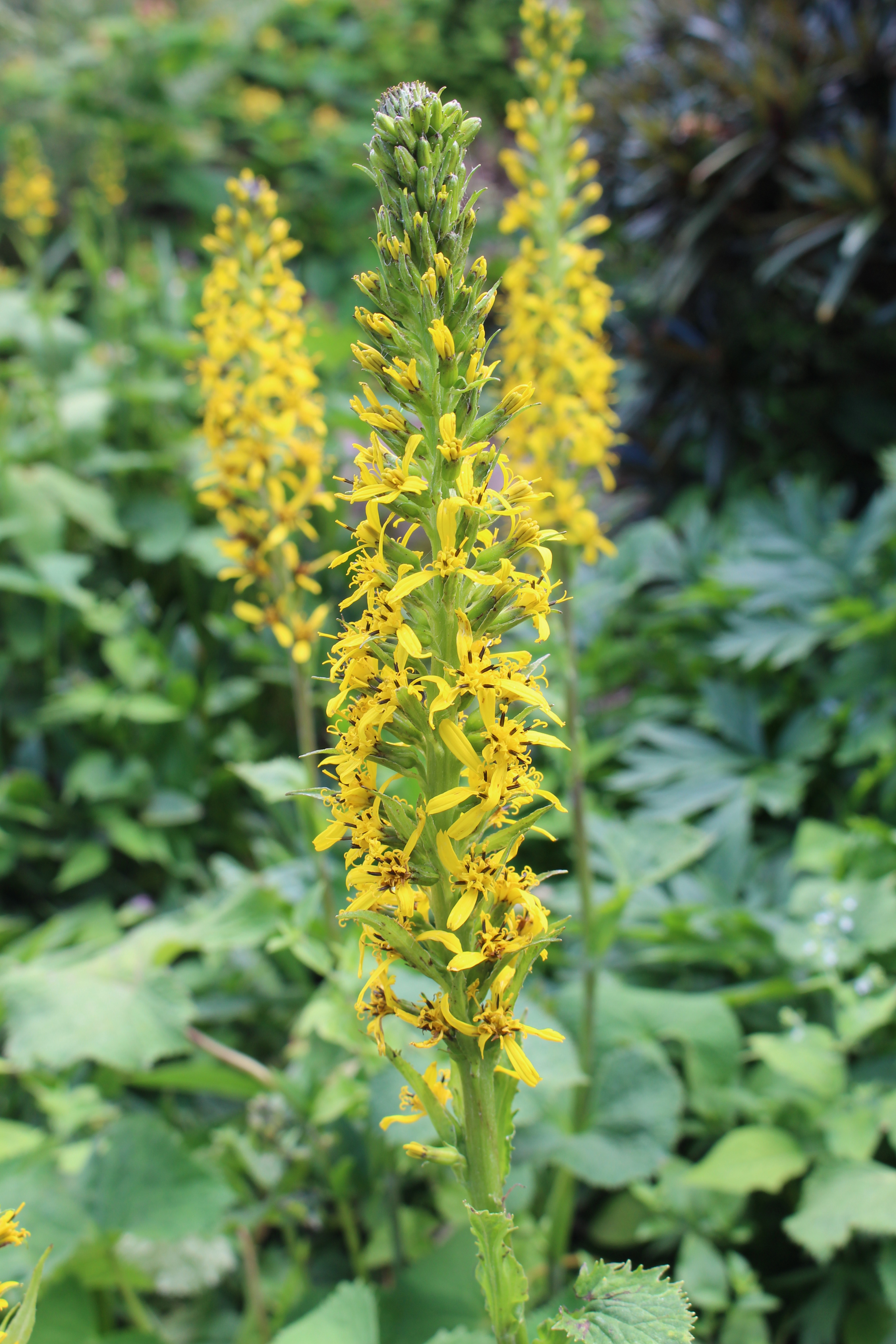 Flowers of Ligularia alatipes in the'Botanischer Garten Marburg', Germany.